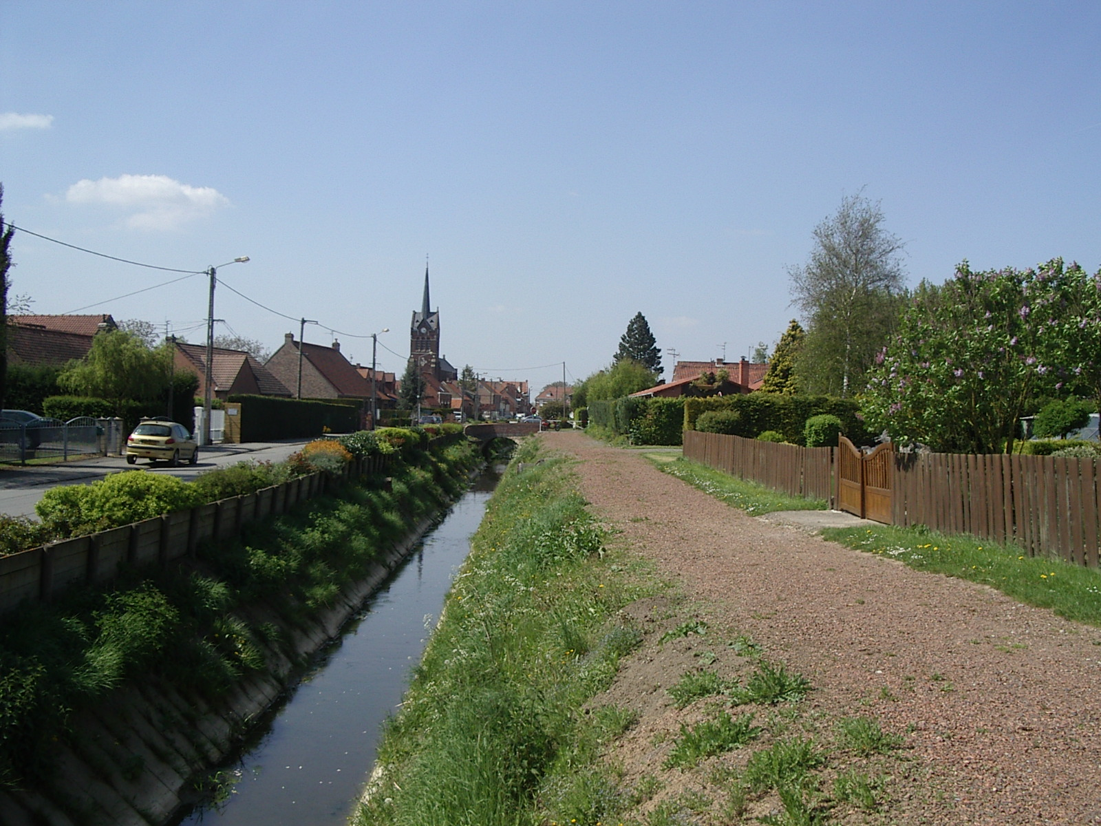 The Village of Le Doulieu